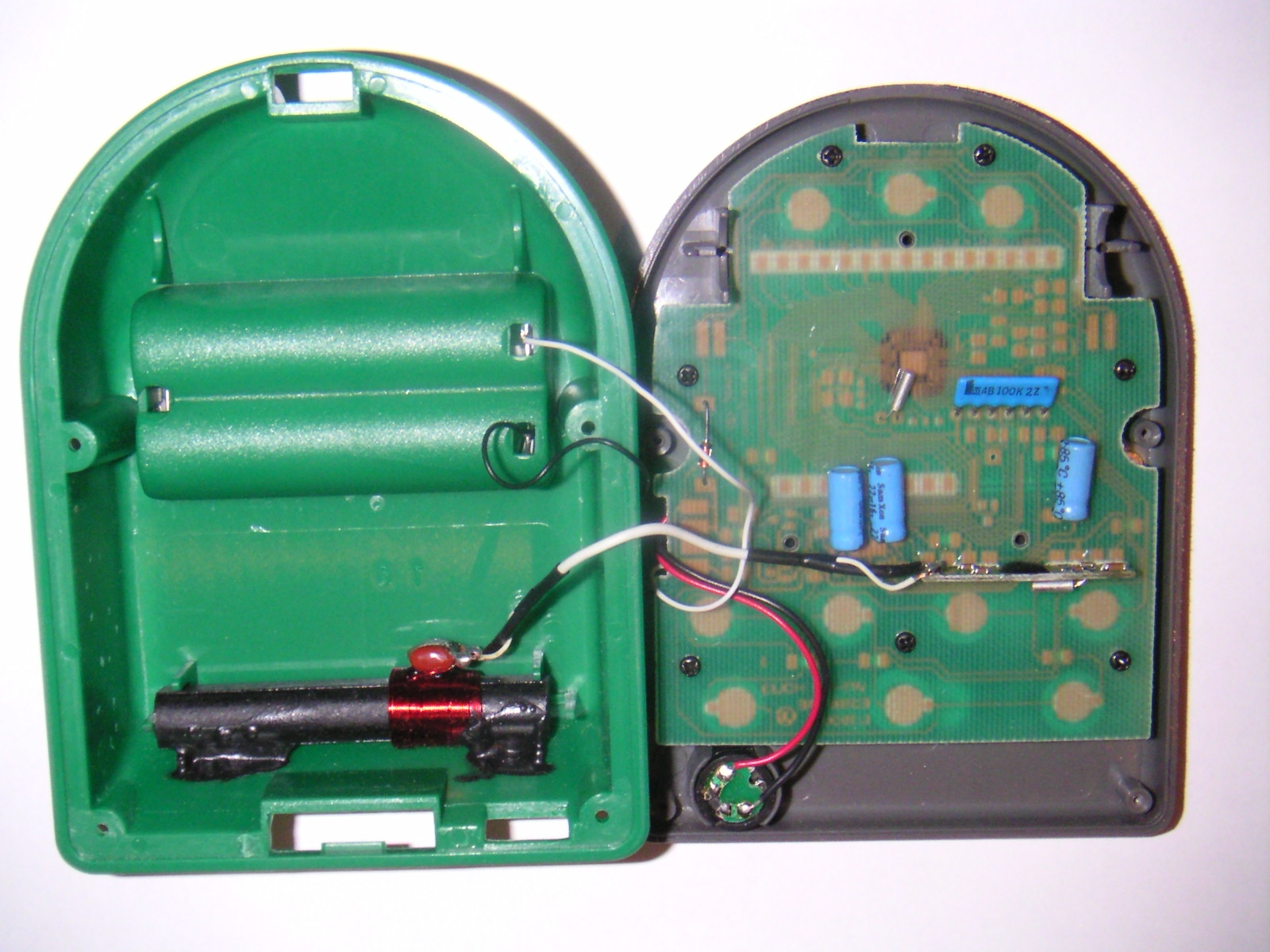 A radio clock. This alarm clock keeps time with a quartz movement, which is periodically synchronized to the correct time by coded radio time signals transmitted by the German Physikalisch Technische Bundesanstalt time radio station DCF77 on 77.5 kHz, received by a radio receiver (right) in the clock. The ferrite loopstick antenna which receives the radio waves is visible at the bottom left.